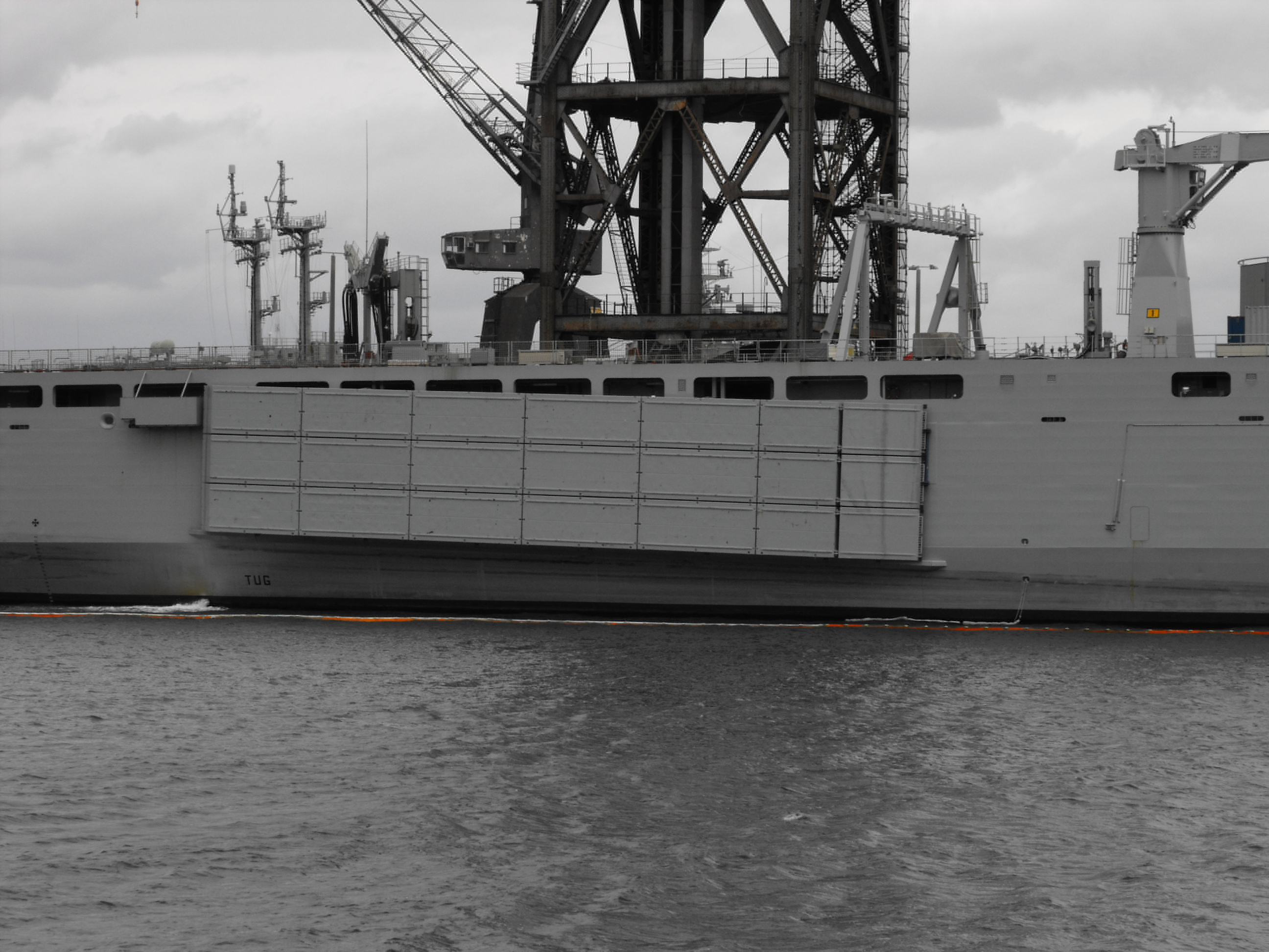 A Mexeflote powered raft suspended from the starboard flank of HMAS Choules